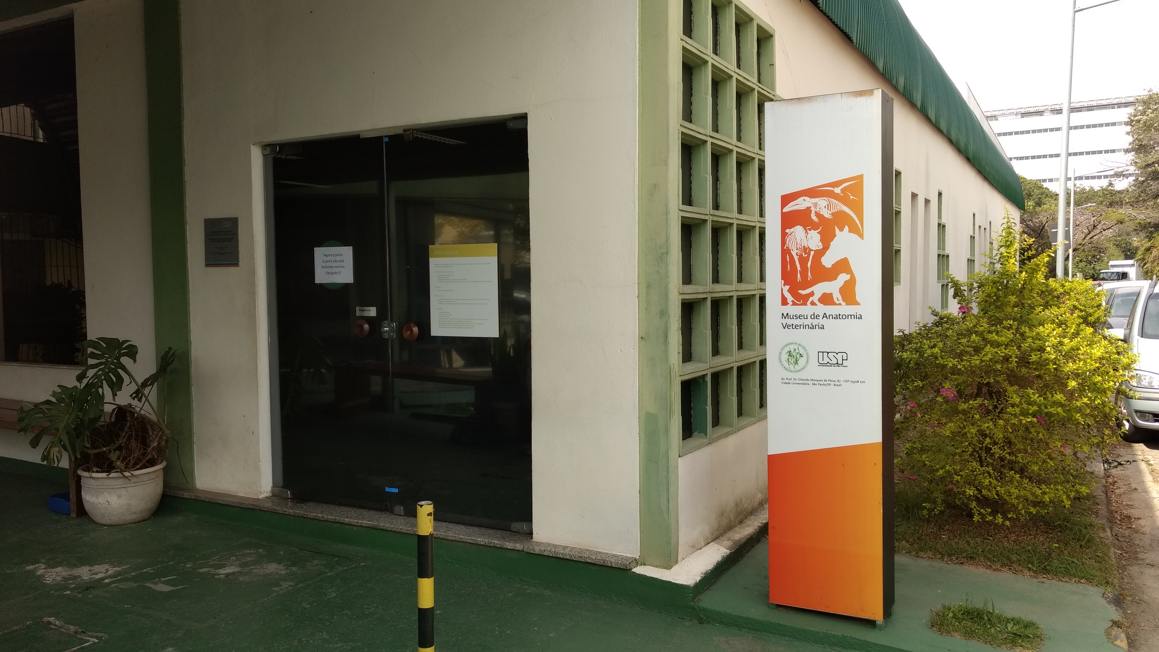 Museum of Veterinary Anatomy of the School of Veterinary Medicine and Animal Science entrance.